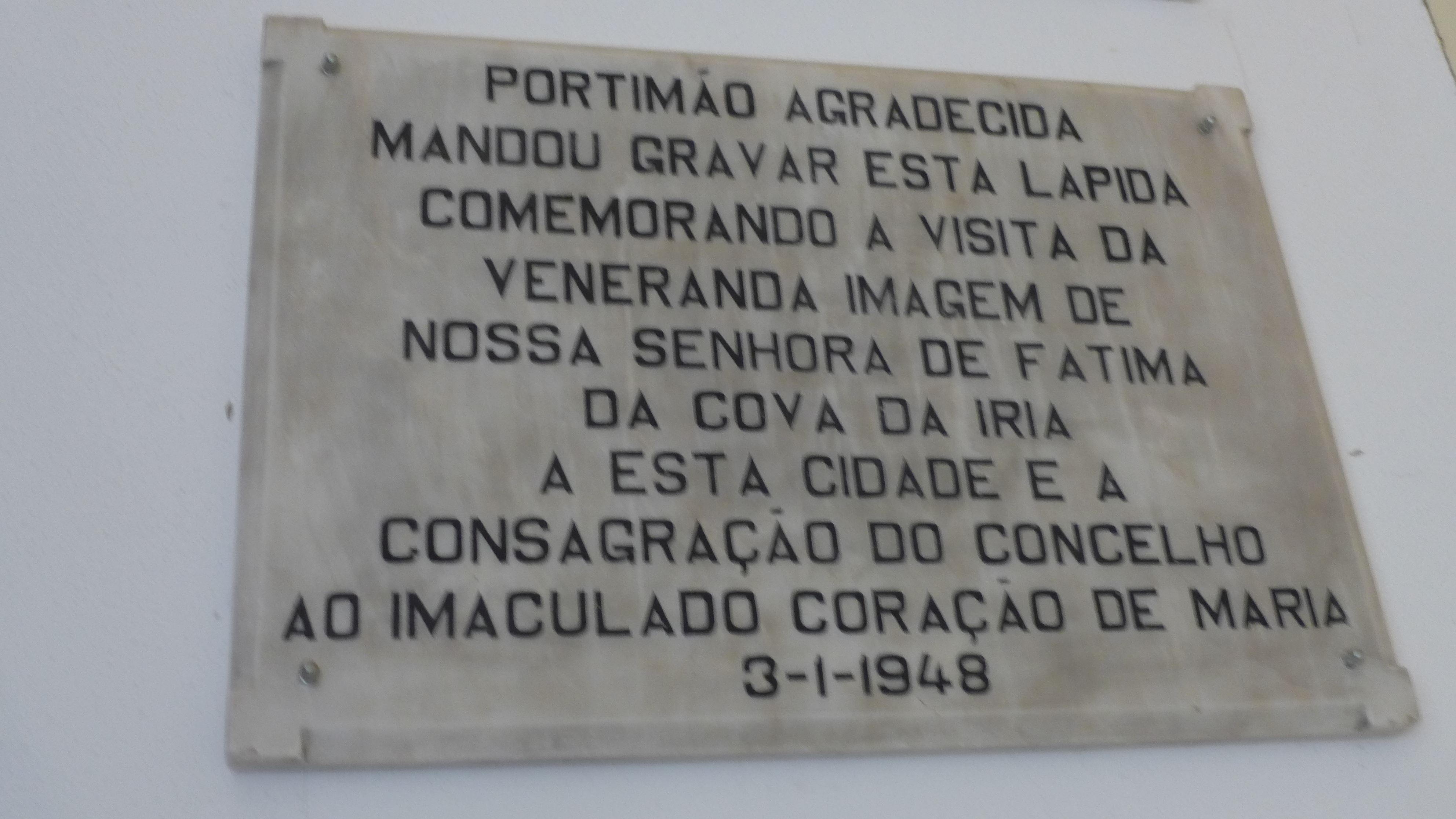 Igreja de Nossa Senhora da Conceição, Portimao On 1 May 1948, in Auspicia quaedam, Pope Pius XII requested the consecration to the Immaculate Heart of every Catholic family, parish and diocese. "It is our wish, consequently, that wherever the opportunity suggests itself, this consecration be made in the various dioceses as well as in each of the parishes and families."